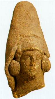 Female terracotta votive offering. La Serreta. (Alcoi, Cocentaina, Penáguila). Century III - beginning of the second century BC